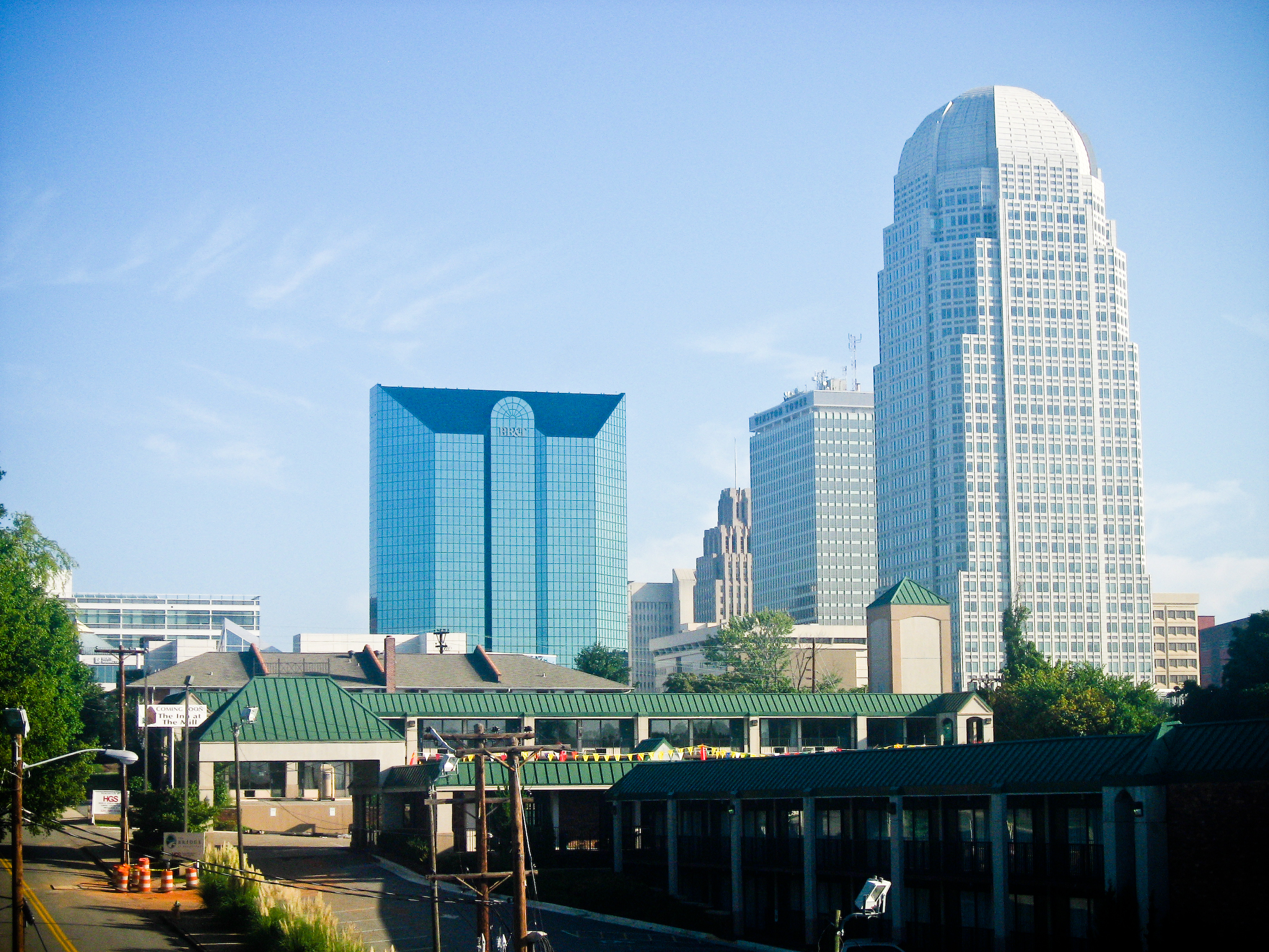 Skyline of Winston-Salem, North Carolina. The prominent building on the left is the BB&T Financial tower; the tallest building, on the right, is the Wachovia Center.